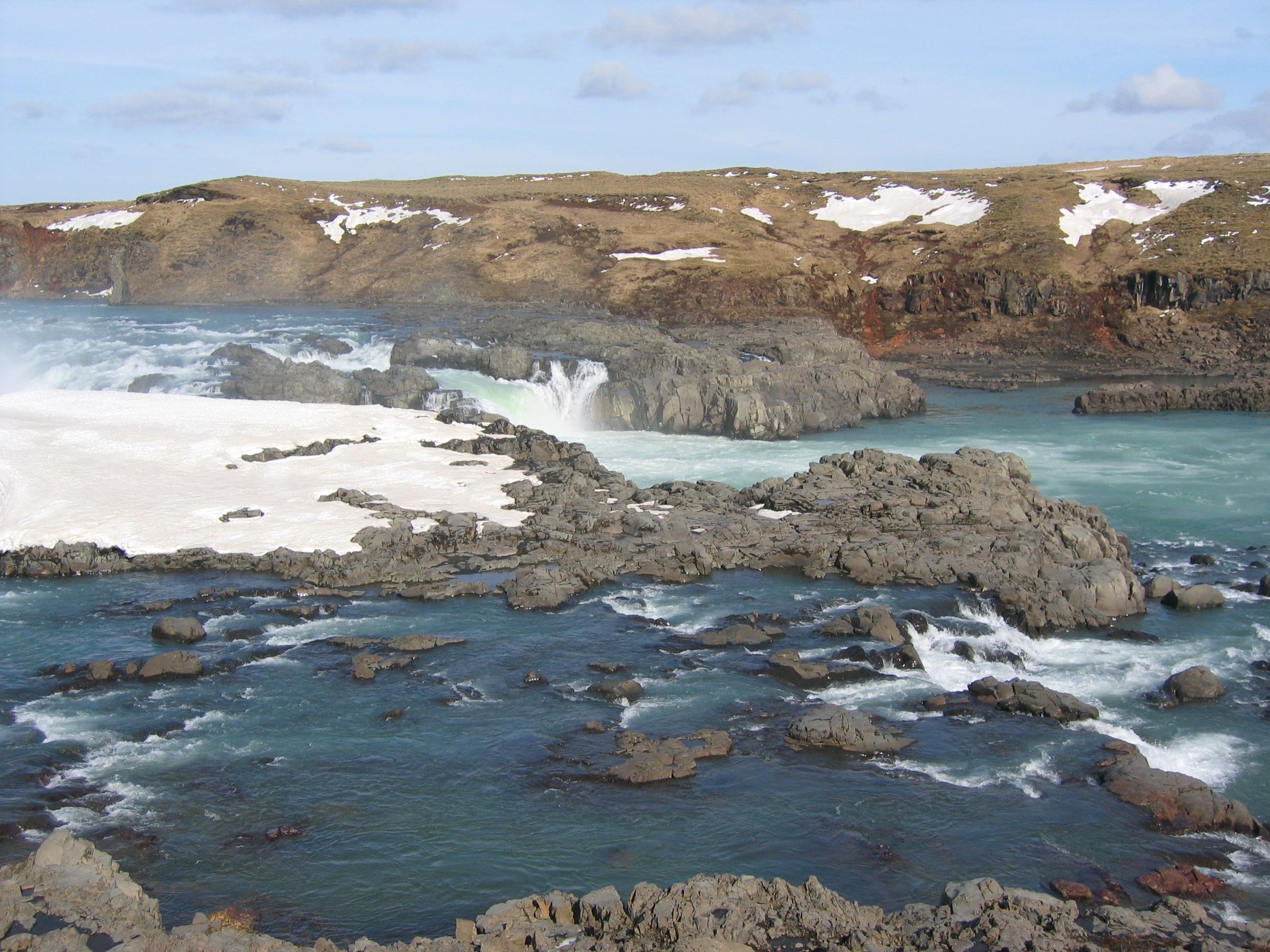 Urriðafoss í Þjórsjá. Photo by Salvor Gissurardottir